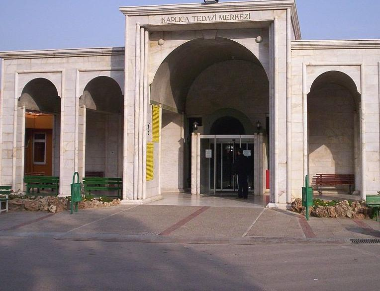 Termal Hotel (Agamemnon Baths) Entry in Balçova, İzmir, Turkey